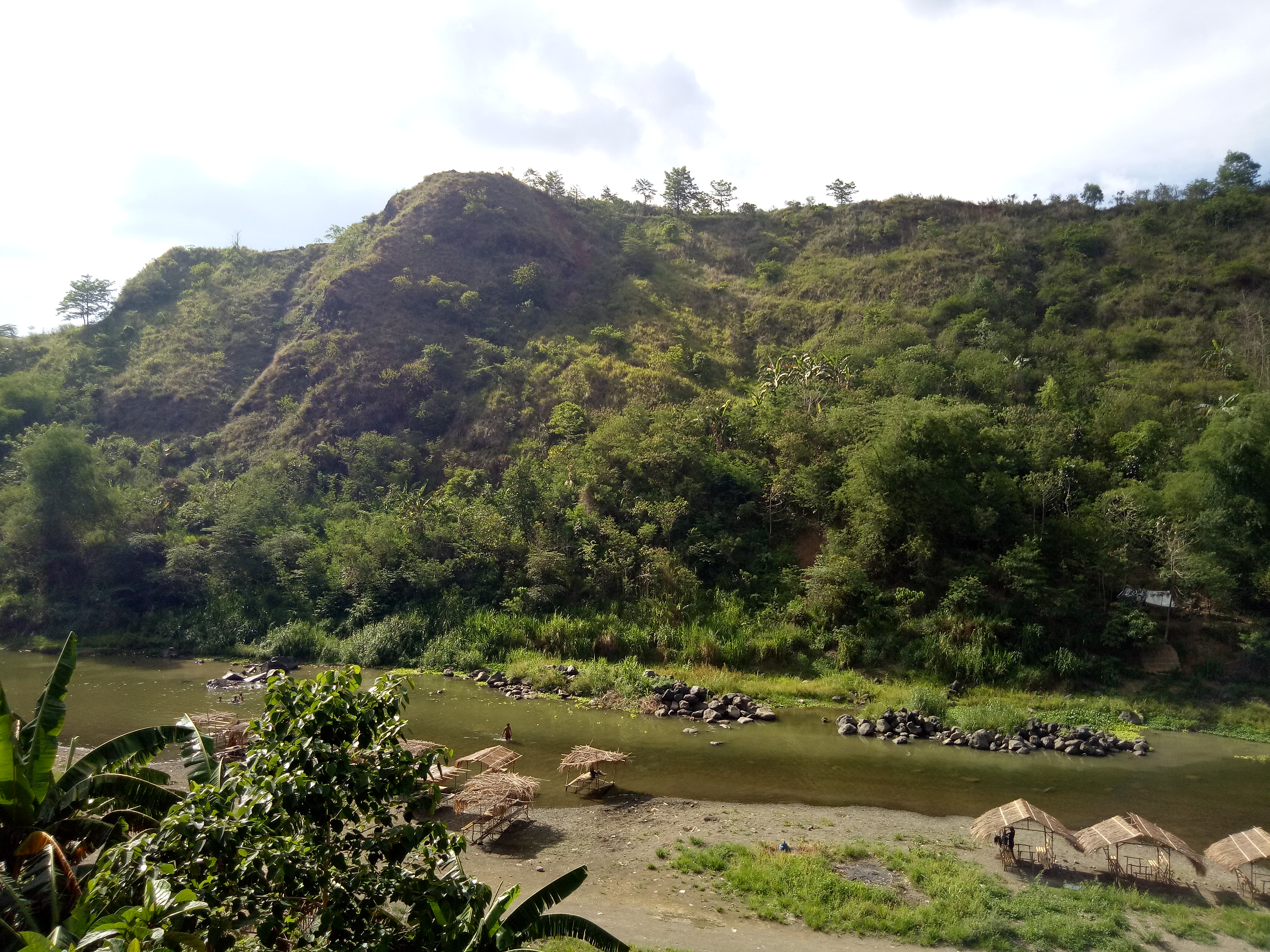 The Upper Marikina River Basin Protected Landscape, also known as the Marikina Watershed, is a protected area in Rizal Province, the Philippines, which forms the upper area of the drainage basin of the Marikina River. Photo taken in the Rodriguez part of the protected area. Uploaded as entry to Wiki Loves Earth (2018). Coordinates: 14°40′16″N 121°12′50″E